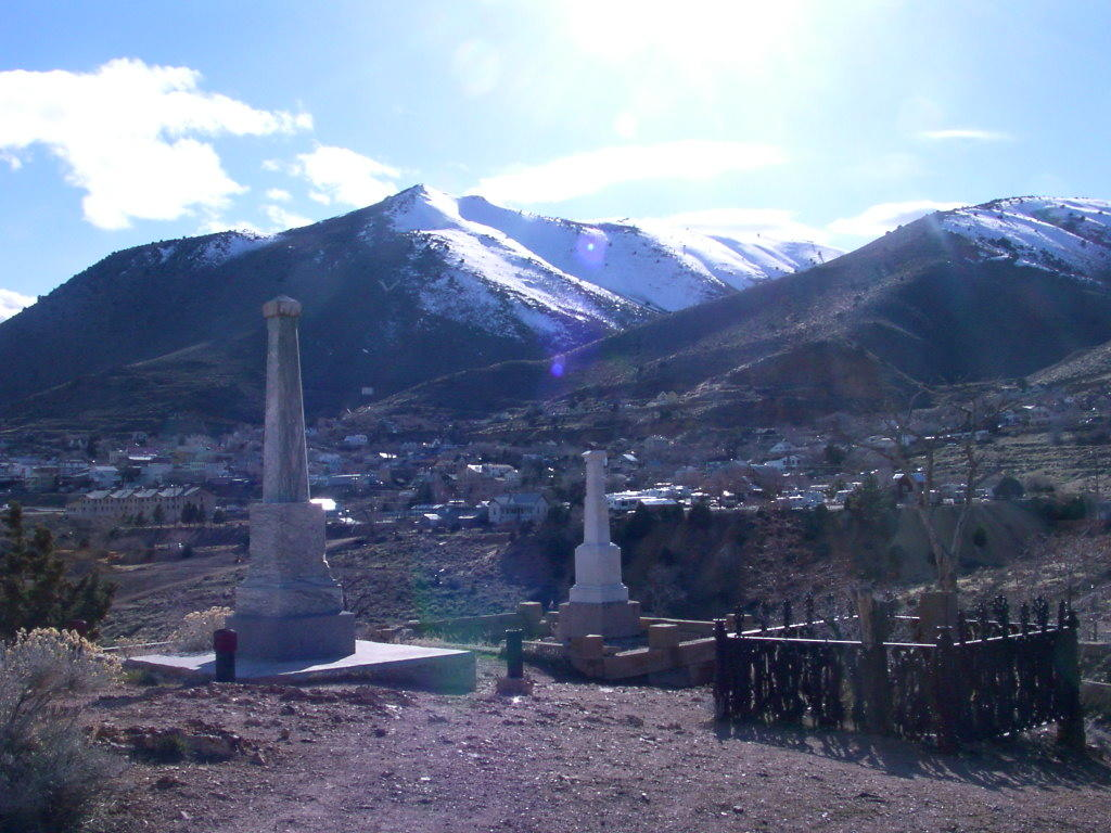 Virginia City, NV 2000